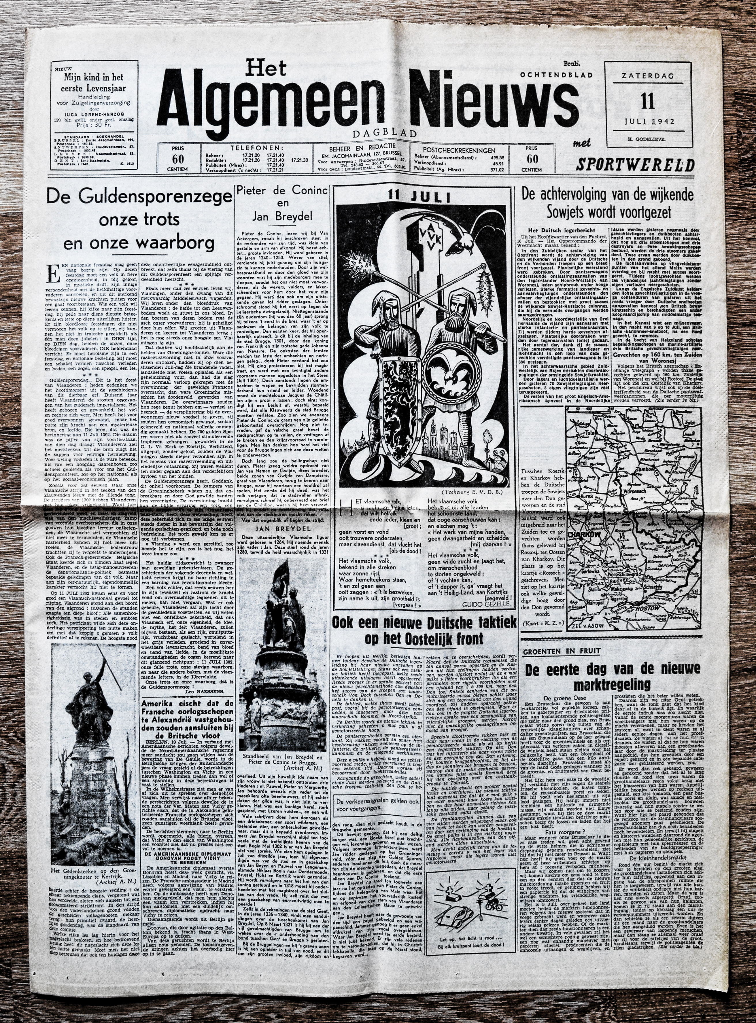 Front page Flemish newspaper "Het Algemeen Nieuws" July 11 1942. With headline: "The golden spurs victory our pride and our guarantee".